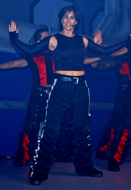 Laura Vlasblom during a live show in Berlin, Germany, in September 1999